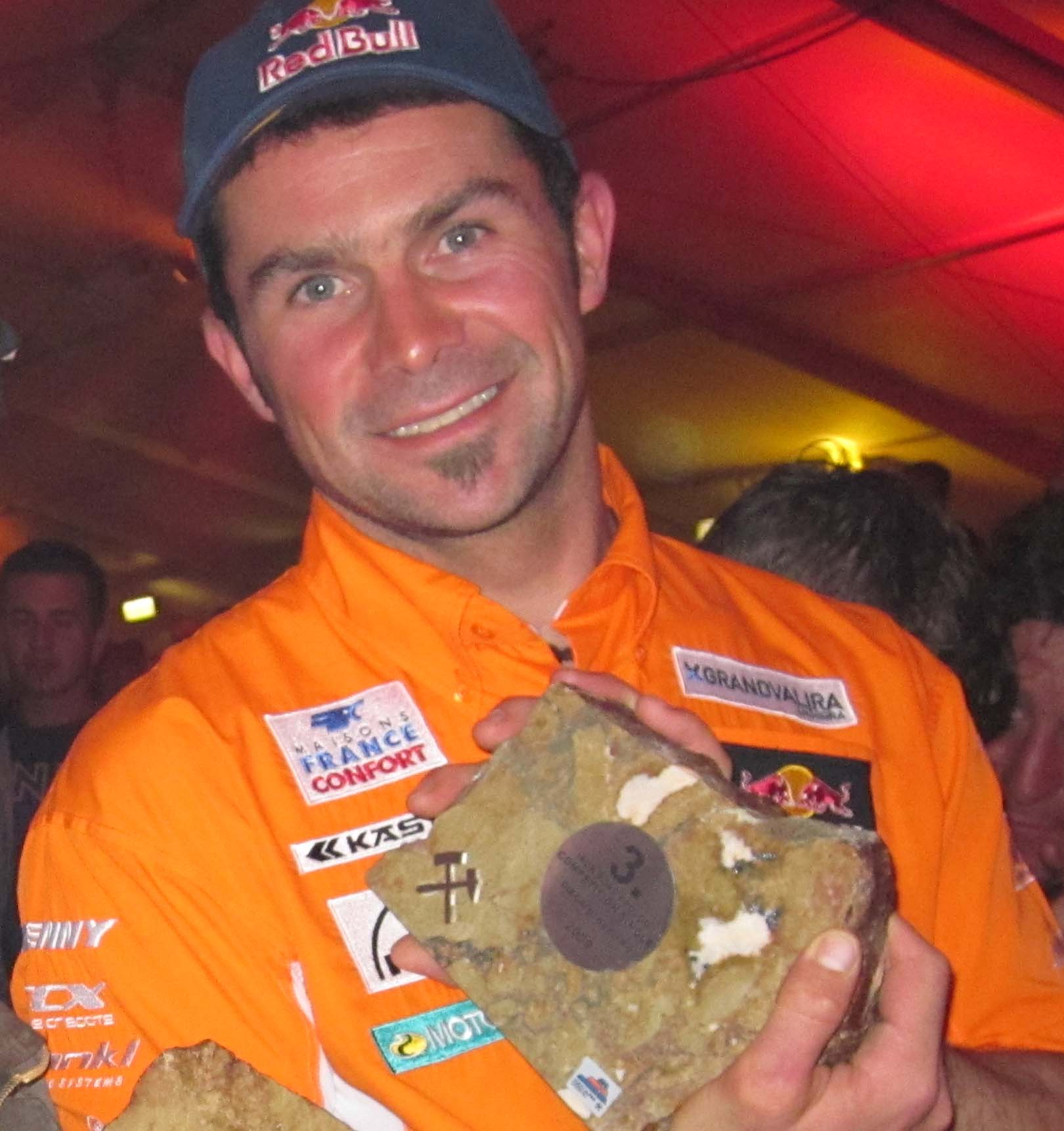 Cyril Despres at Erzberg Rodeo 2009, Austria